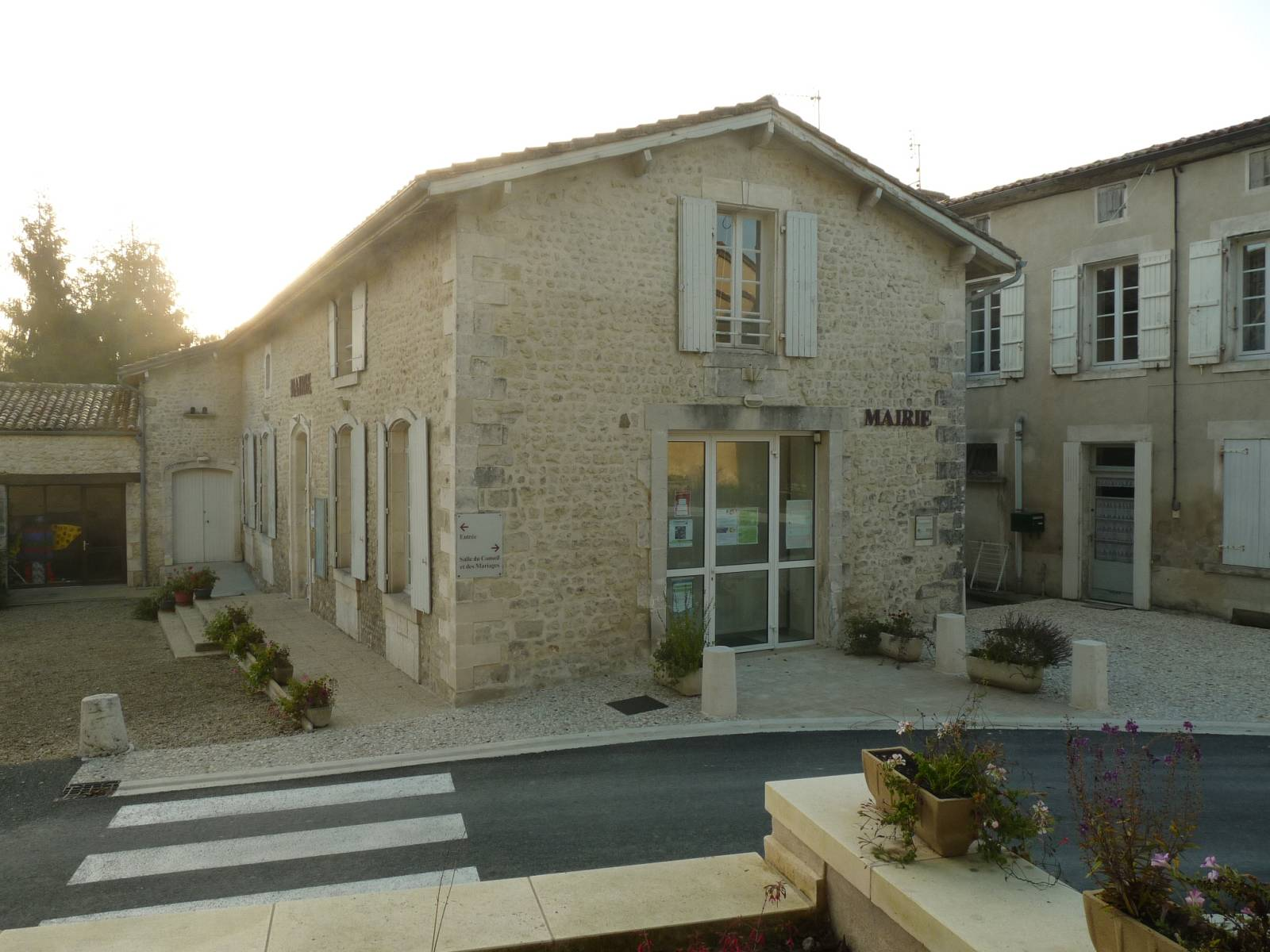 town hall of Condéon, Charente, SW France